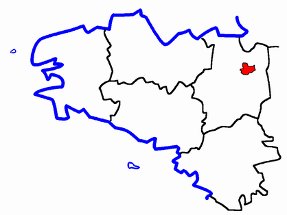 Description: Map for localisazion of cantons of Bretagne region in France Source: made by Hervé Tigier from another large map (published in 1990)